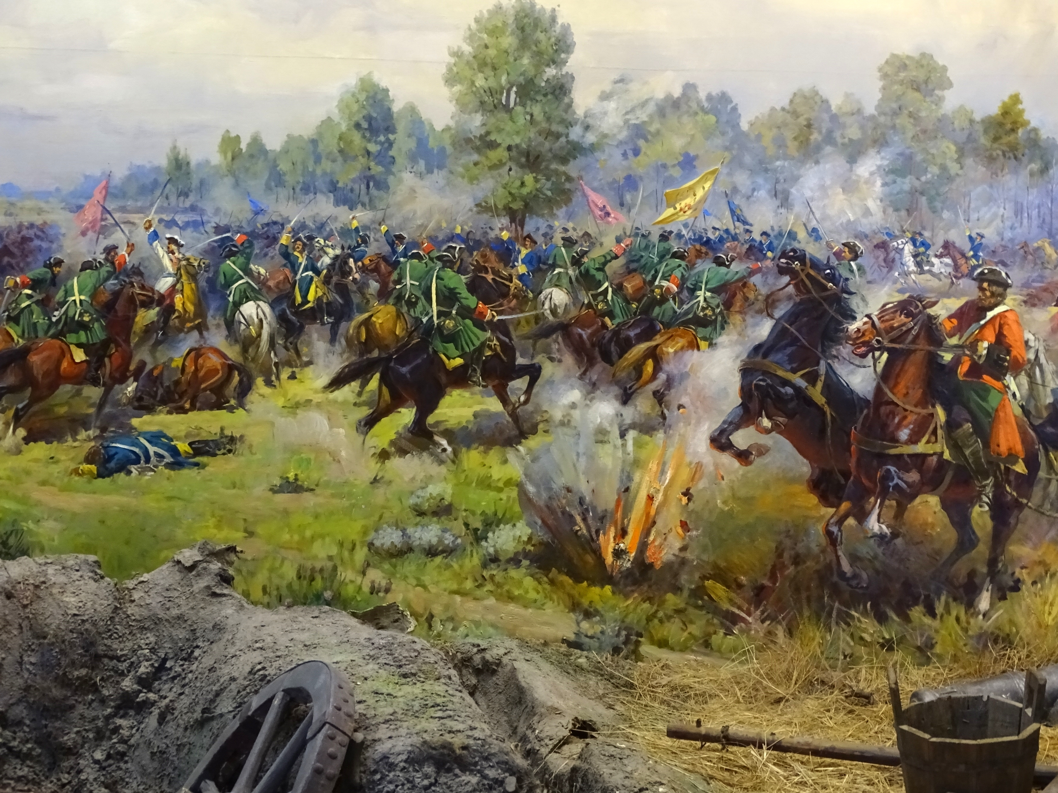 Detail of Diorama of Battle of Poltava - Battle of Poltava History Museum - Poltava - Ukraine - 03